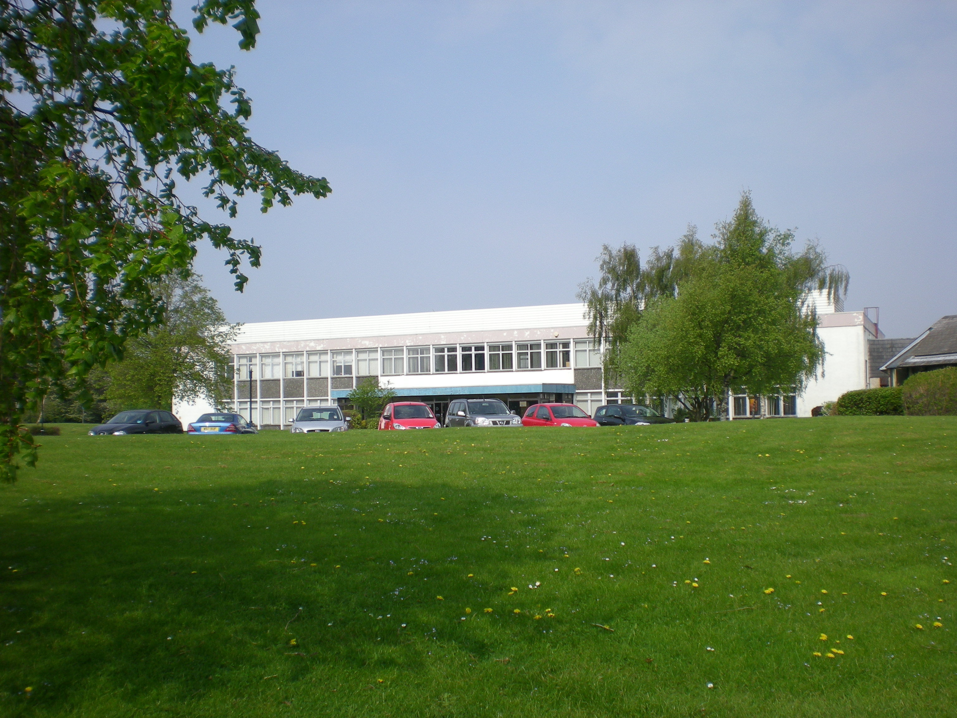 1975 factory at Gateside